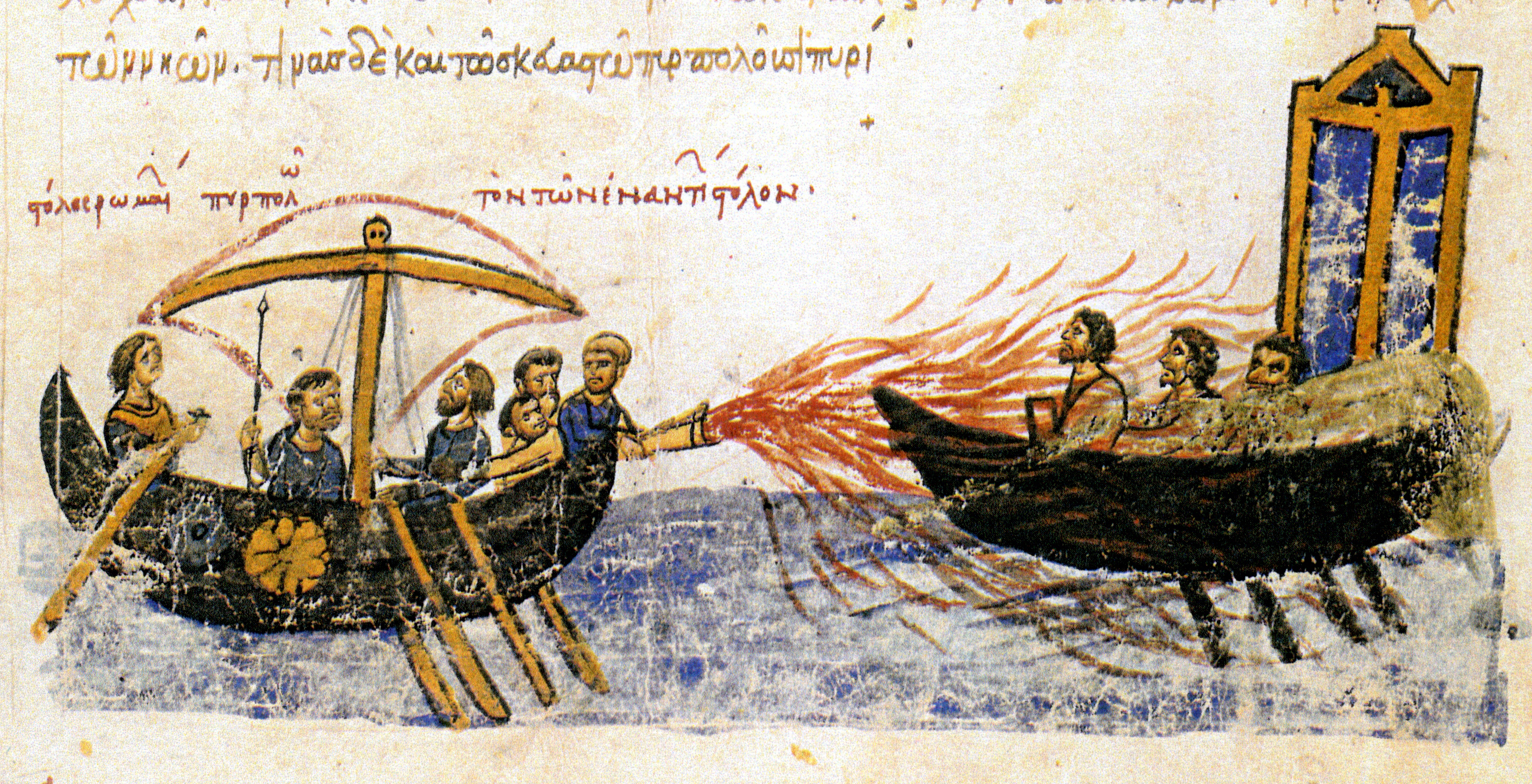 Image from an illuminated manuscript, the Skylitzes manuscript in Madrid, showing Greek fire in use against the fleet of the rebel Thomas the Slav The caption above the left ship reads, στόλος Ρωμαίων πυρπολῶν τὸν τῶν ἐναντίων στόλον, i.e. "the fleet of the Romans setting ablaze the fleet of the enemies".